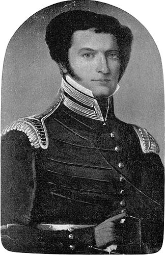 56rd Governor of South Carolin